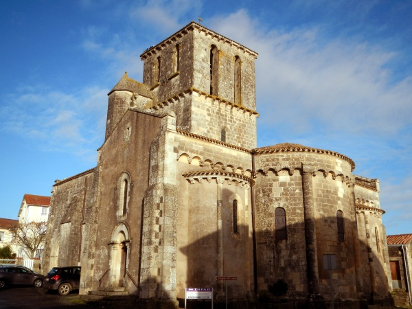 Saint-Maurice church, Béceleuf, Deux-Sèvres.